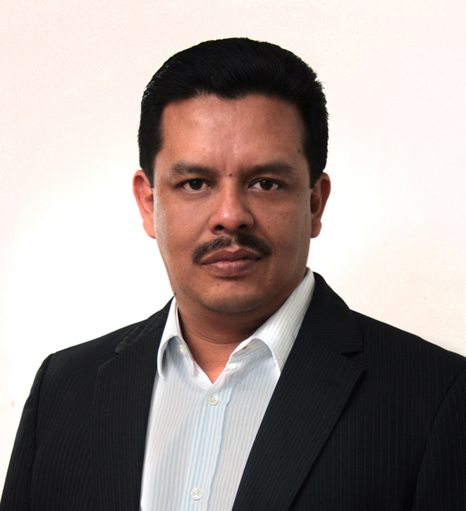 Antonio Tello, mexican journalist